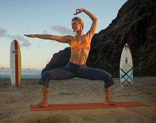 Shiva Rea in Goddess Pose in Hawaii